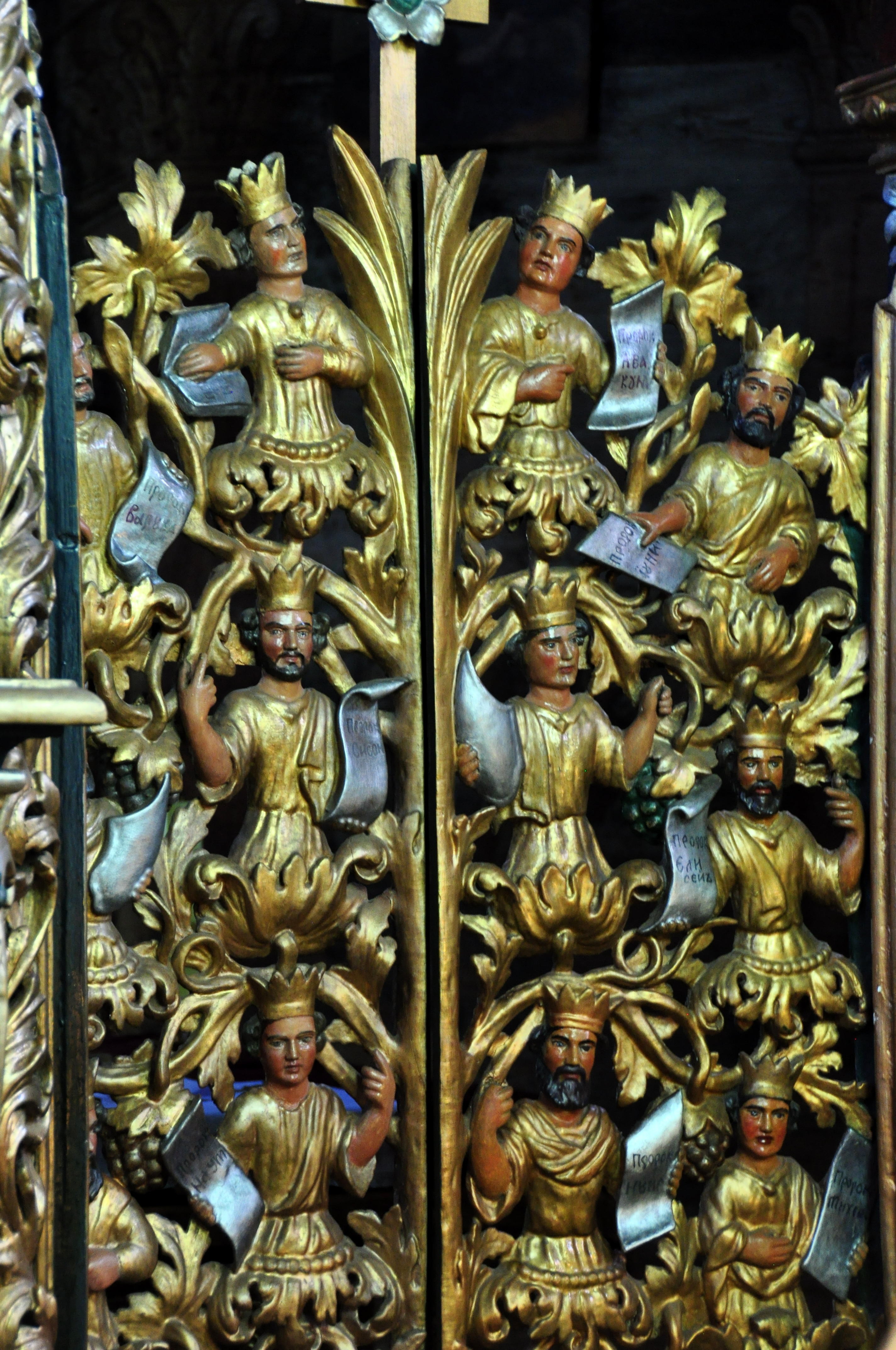 Holy Doors, Part of Iconostasis, Holy Trinity Church in Zhovkva, Western Ukraine